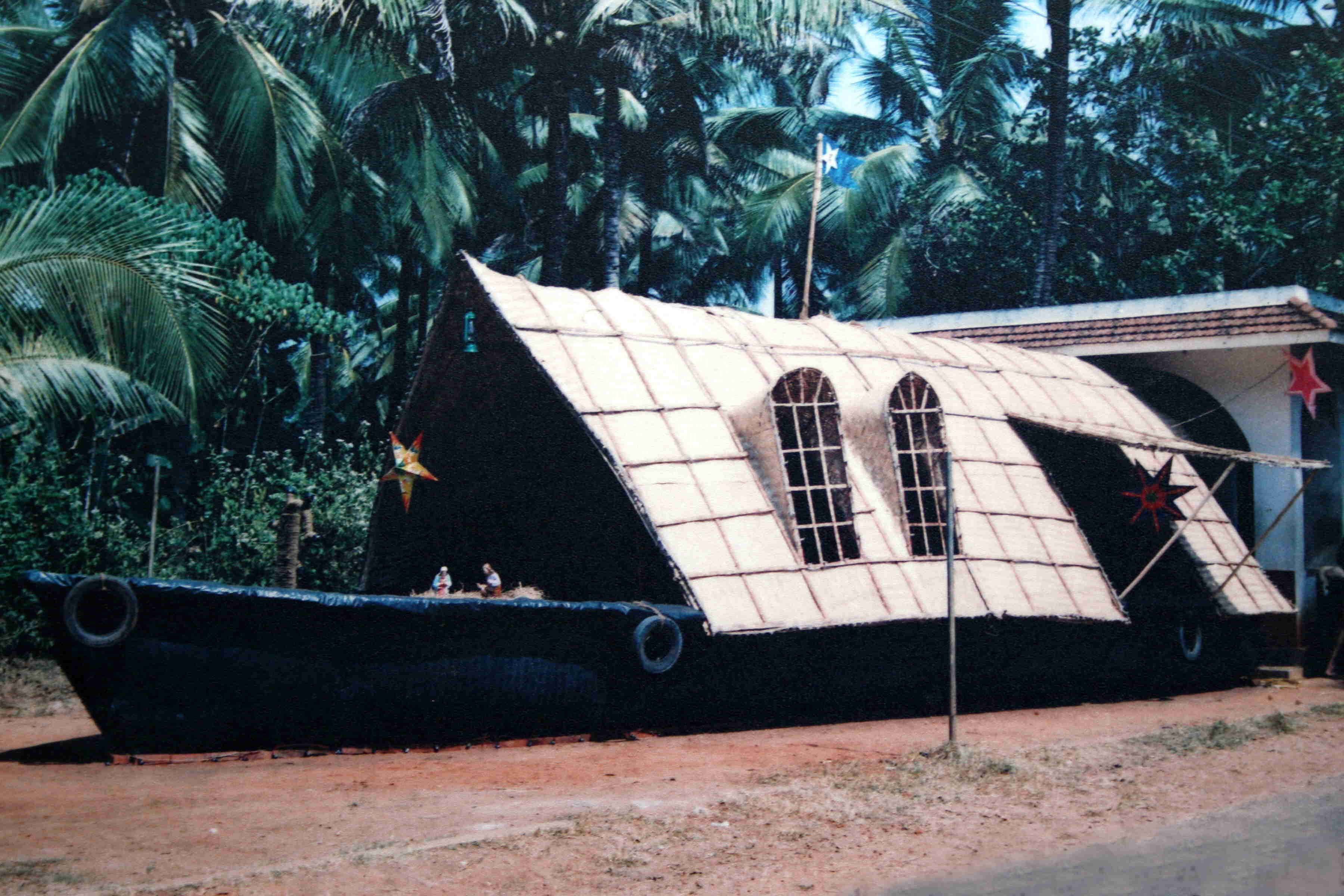 Crib X'mas is widely celebrated in Kerala. One of the main attraction of the X'mas celebration is Crib. The house boat shaped Crib is made on the occasion of X'mas and New year. Year : 2002 (December) Location: Evershine Arts and Sports Club, Ashtamichira, Thrissur, Kerala, India